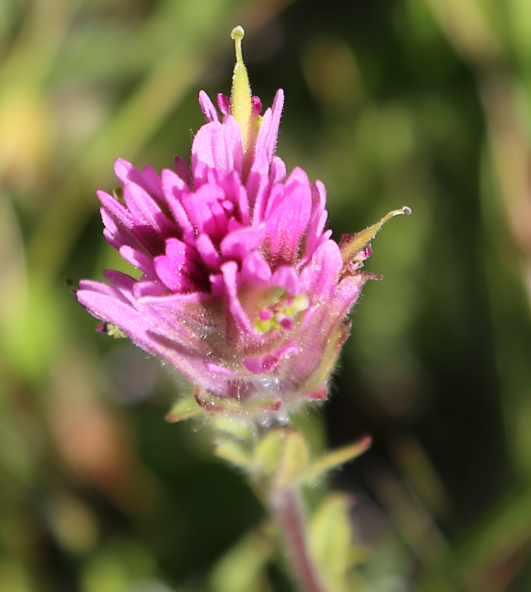 Lemmons paintbrush (Castilleja lemmonii) detail of flowerhead with deep pink bracts. At 10,300 ft (3,100 m) by Shell Lake, Mine Creek Valley near Tioga Pass, California USA.